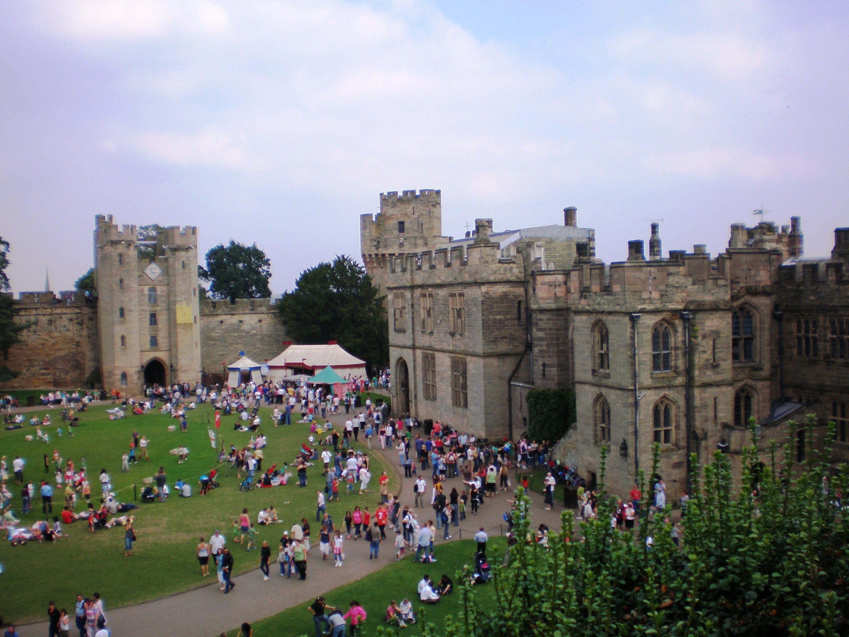 Warwick Castle